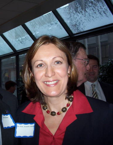 Jennifer Brunner, Ohio Secretary of State